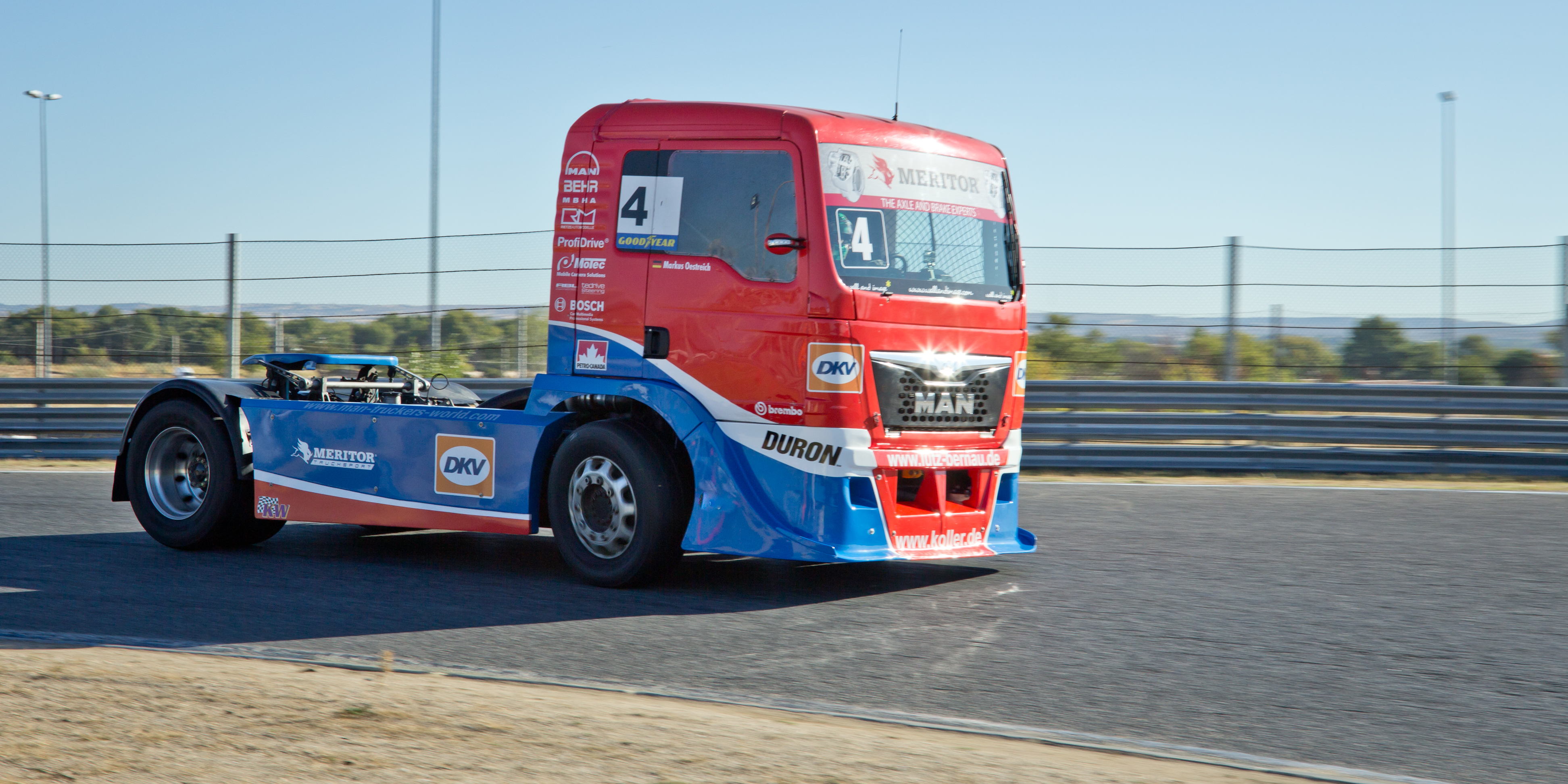 Truck pilot Markus Östreich at the Spain Truck GP 2013.